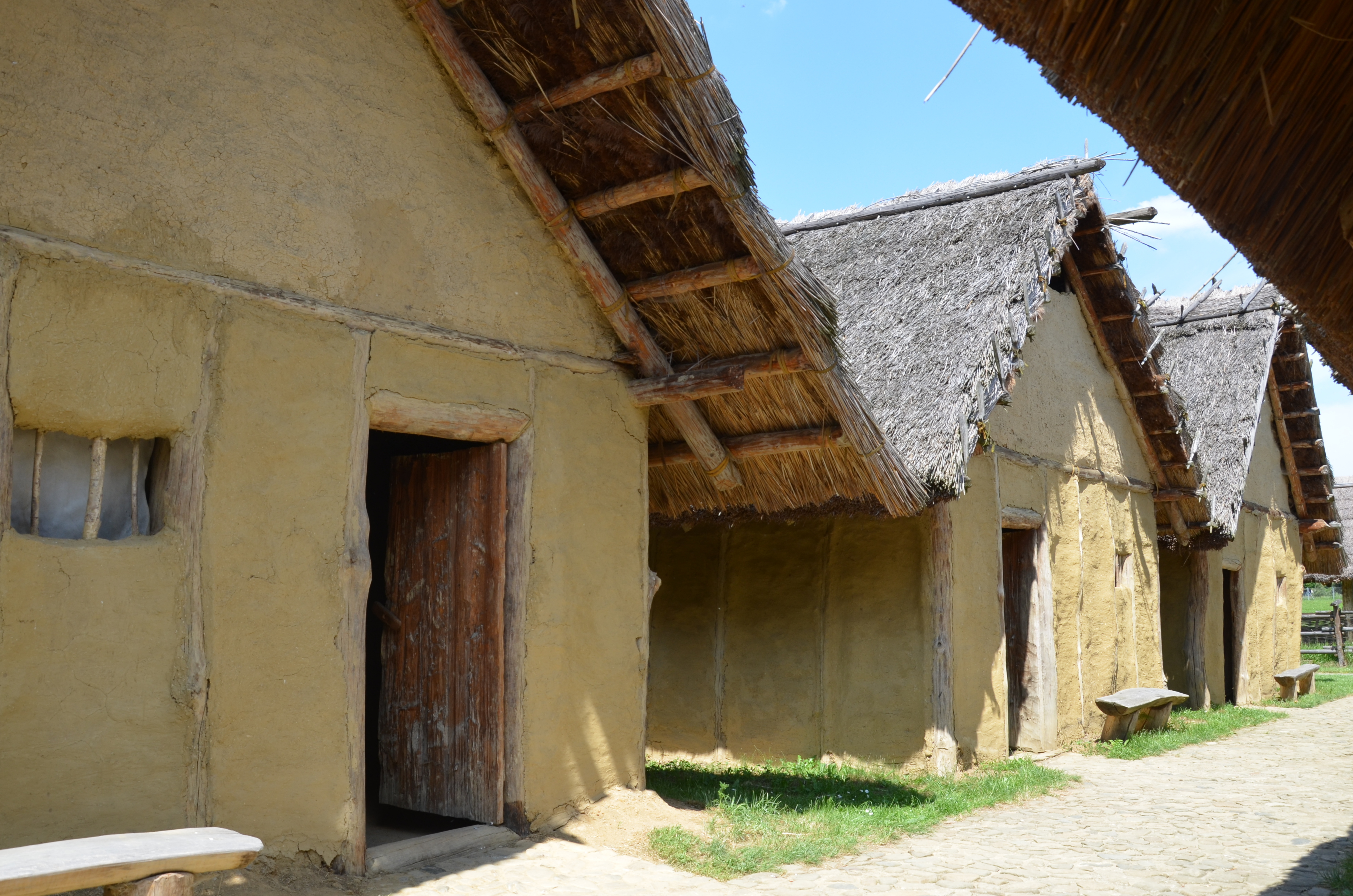 Ottomány cottages c. 1650 BC